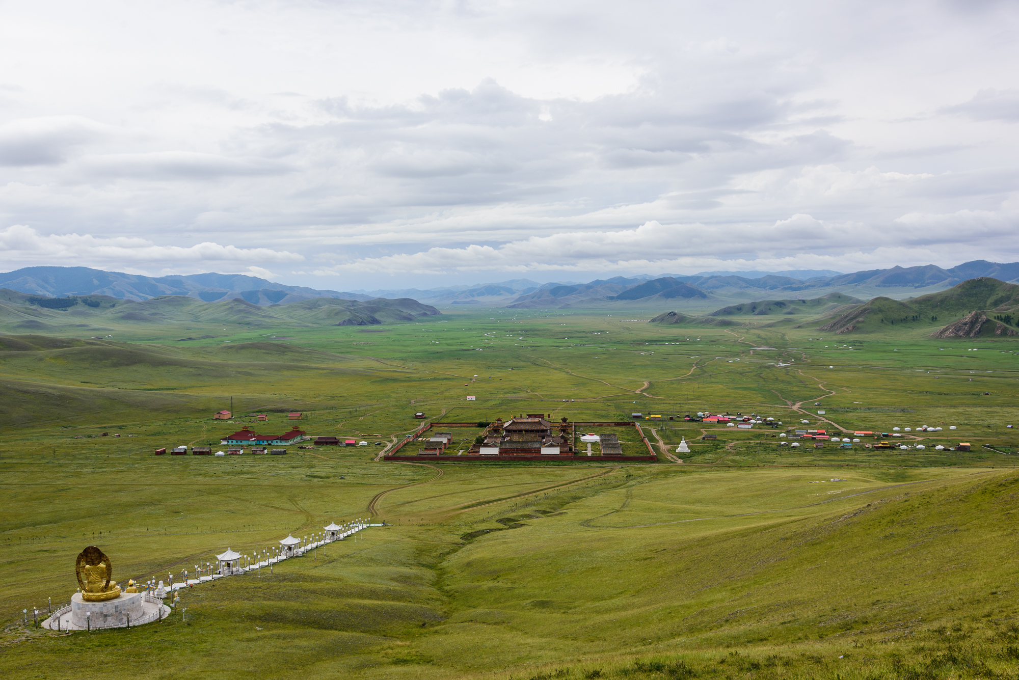 The monastery Amarbajasgalant in North mongolia.